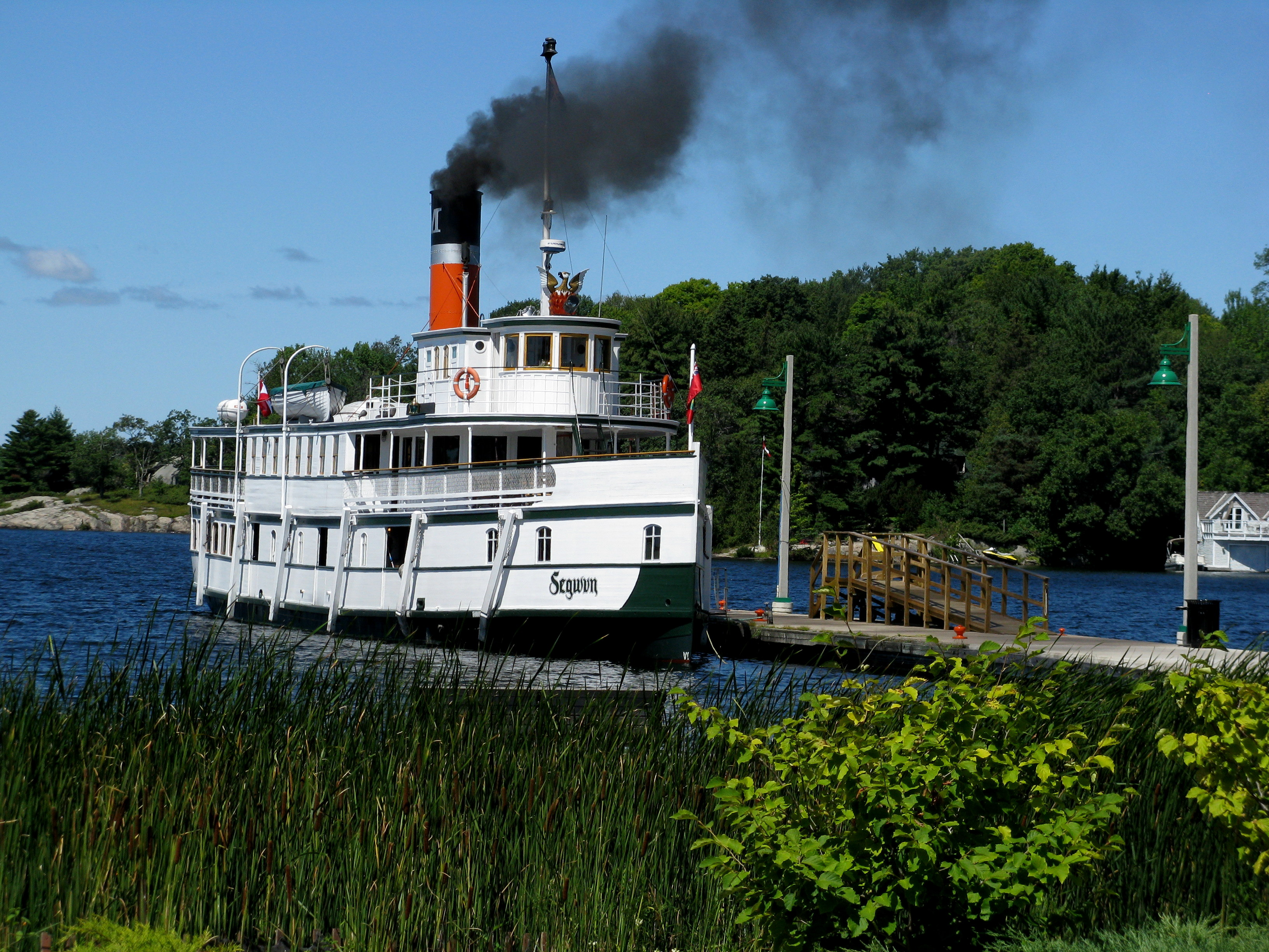 Visit to cottage of Paul's parents on Whitestone Lake, near Dunchurch, Ontario. Visit to cottage of Paul's parents on Whitestone Lake, near Dunchurch, Ontario.